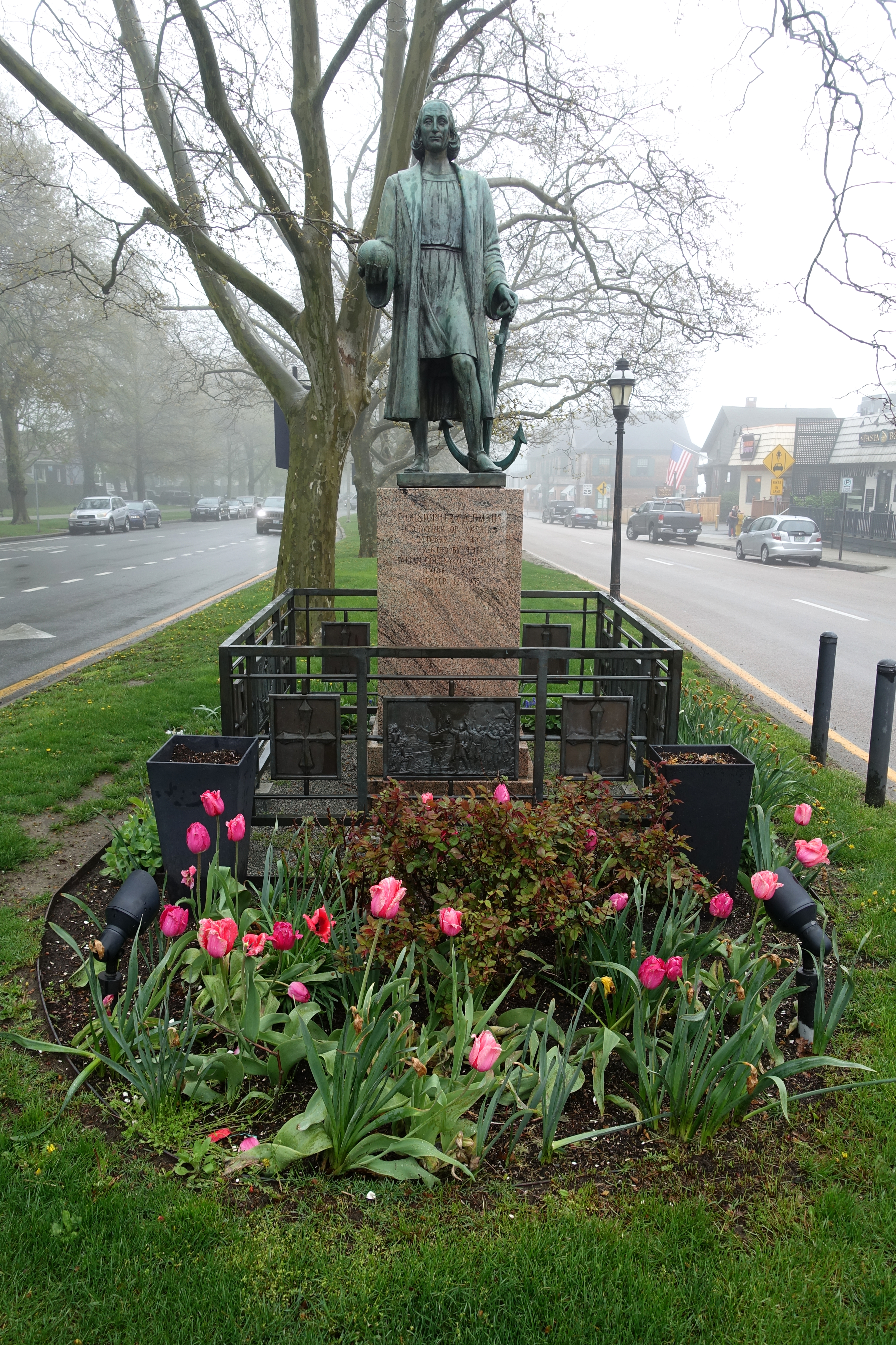 Christopher Columbus by Giovanni Cappelletti, Fonderia Artistica Ferdinando Marinelli, 1953, bronze, granite - Newport, Rhode Island, USA. This sculpture is now in the public domain because it was published and copyrighted in the United States between 1923 and 1963, with its copyright not renewed.